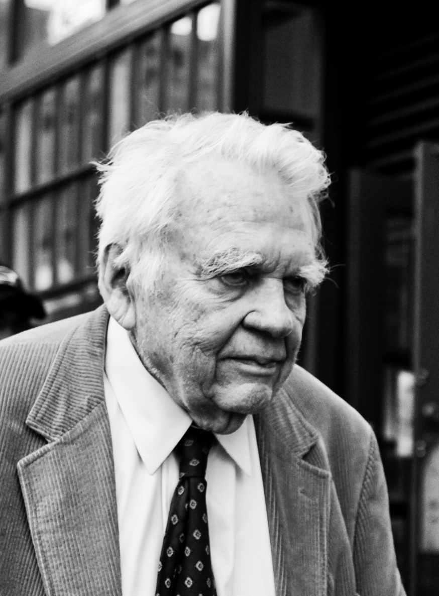 Andy Rooney, photographed by Stephenson Brown.